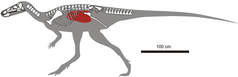 Location of the gut content in the reconstructed skeleton of Isaberrysaura mollensis gen. et sp. nov. The drawings were processed using Adobe Photoshop CS2 Serial Number: 1045-1412-5685-1654-6343-1431.